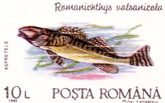 Asprete. Postal stamp